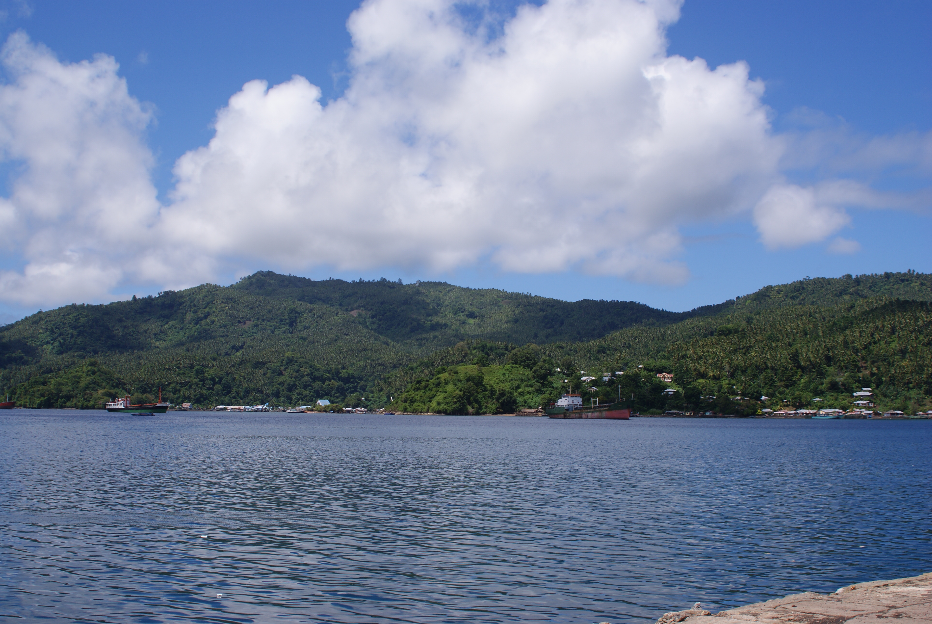 Lembeh Island view from Port of Bitung